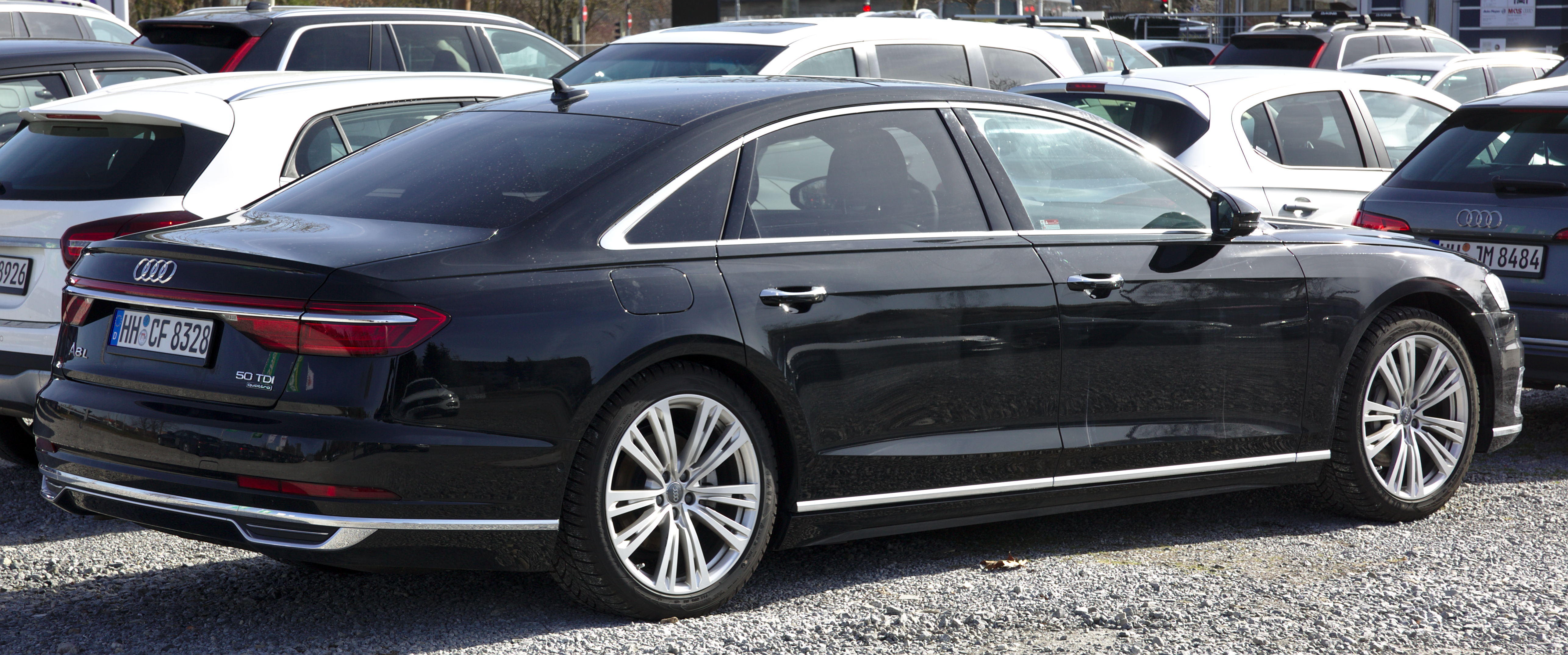 Audi A8 L 50 TDI Quattro in Stuttgart-Vaihingen